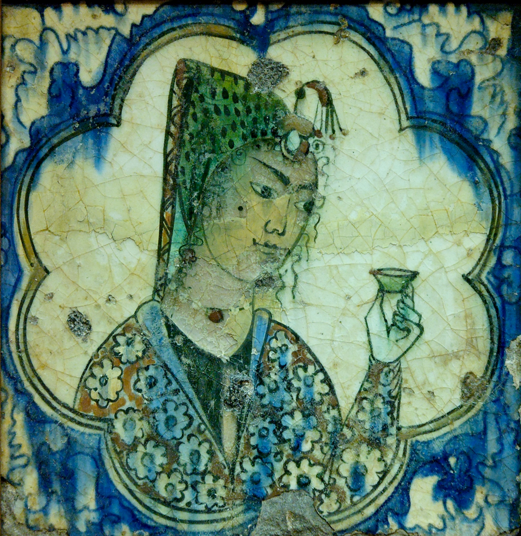 Tile with young girl. Earthenware, painted on slip and under transparent glaze. Northwestern Iran, Kubacha ware, 17th century.